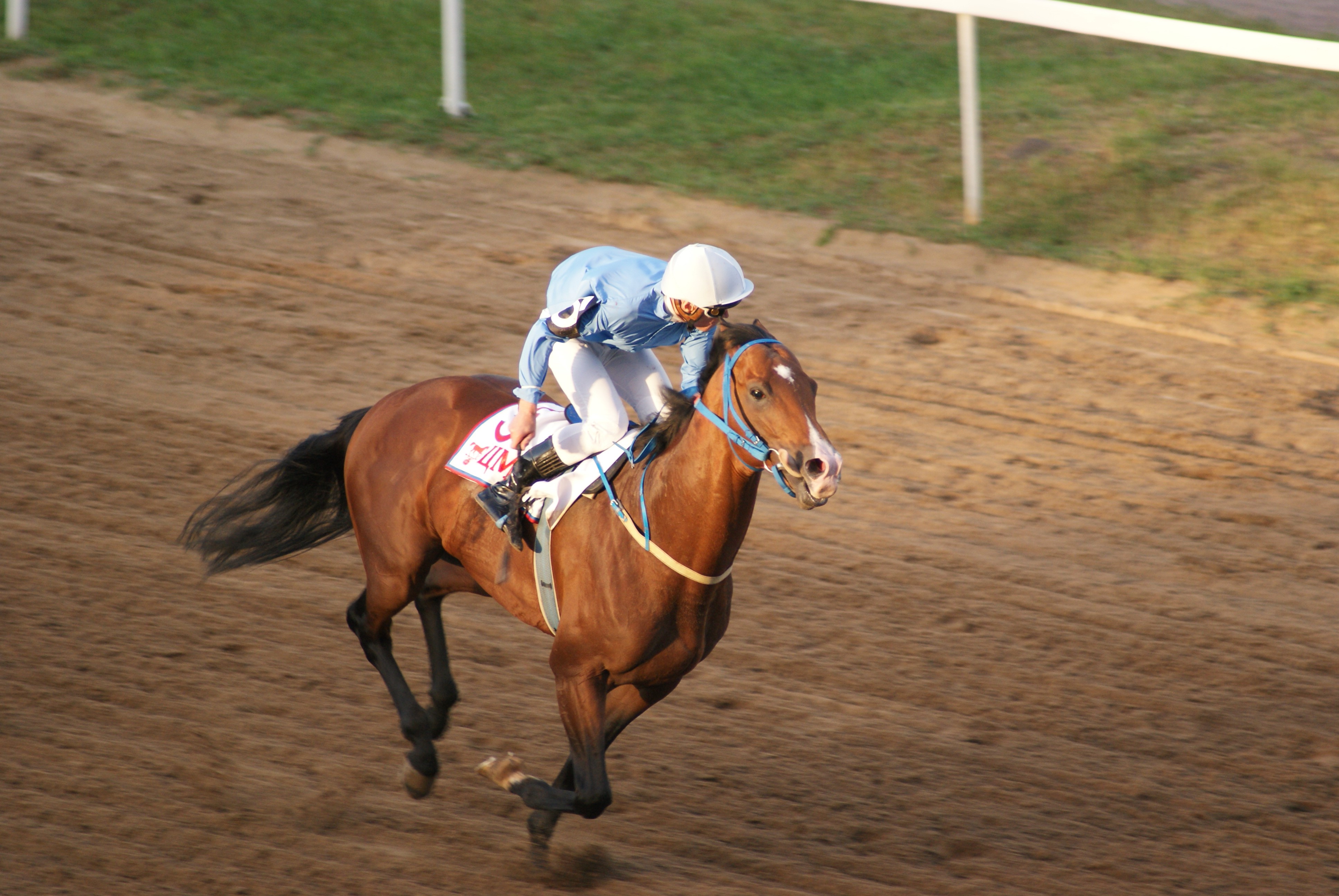 Moscow Hippodrome Центральный Московский ипподром